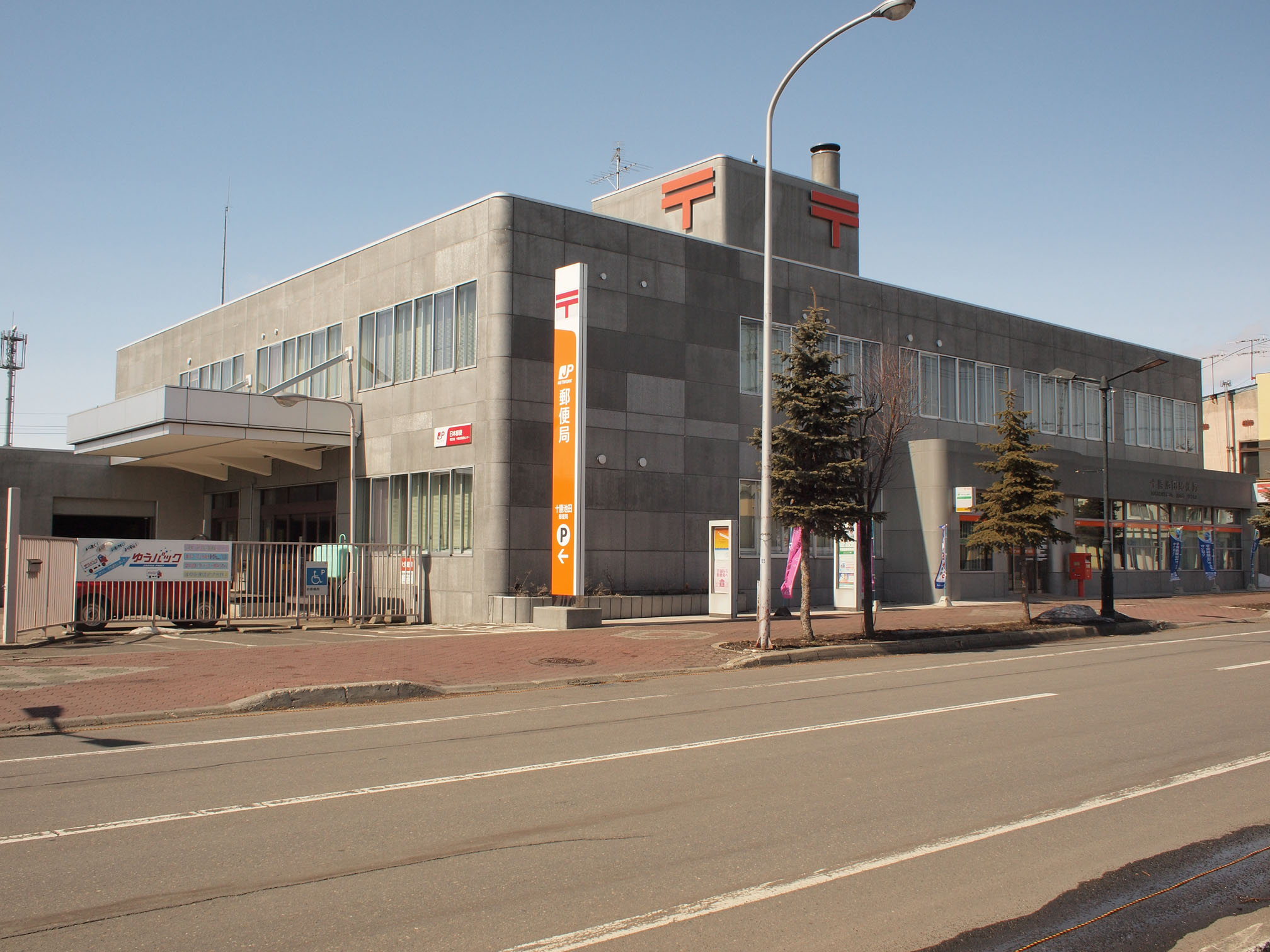 Tokachi Ikeda post office, Ikeda, Hokkaido, Japan